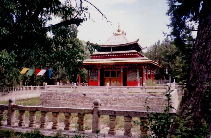 I took this photo in August, 1993. John Hill 11:41, 28 January 2007 (UTC)